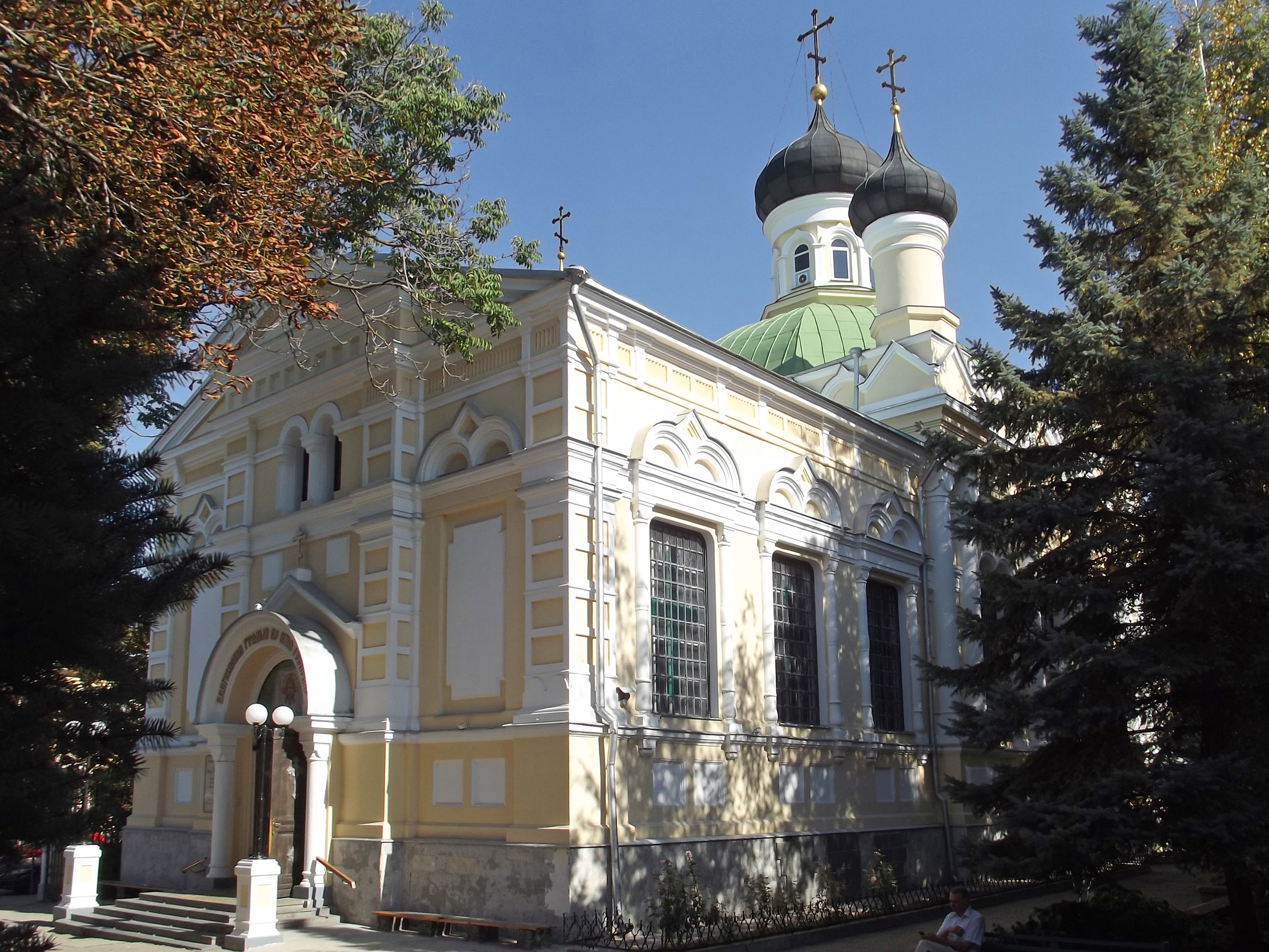 Simferopol - Three Saint Hierarchs Church